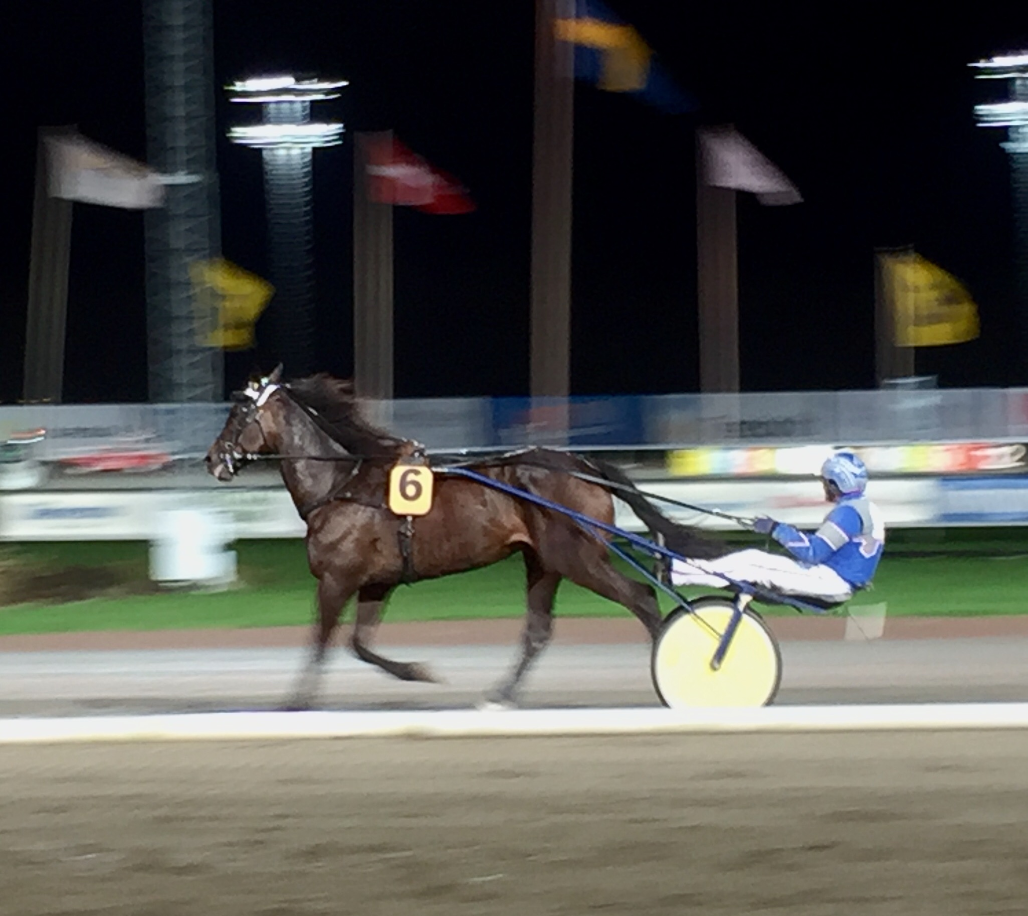 VästerboontheNews and Stefan Söderkvist at Jägersro 2017-10-28.